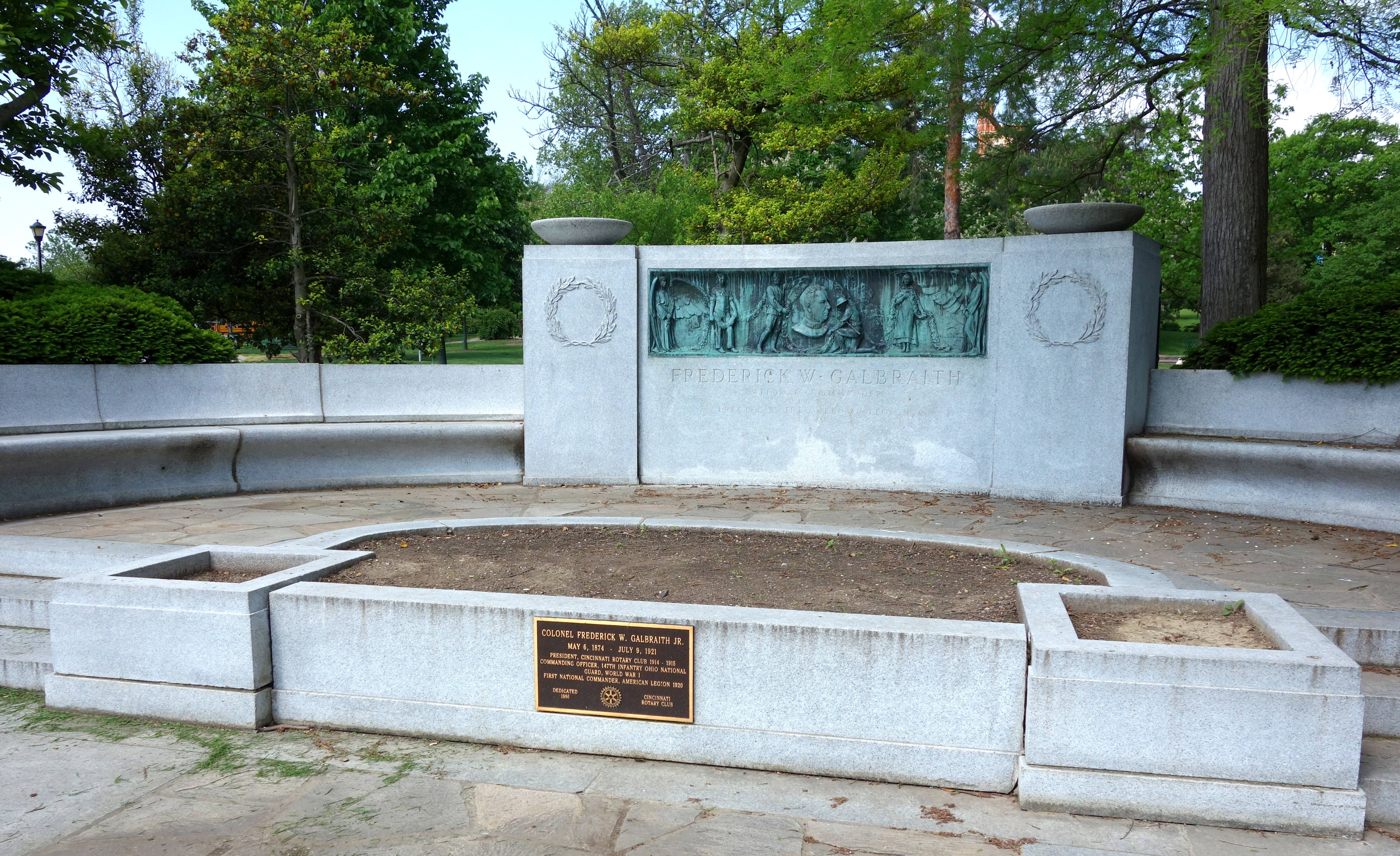 Frederick W. Galbraith Memorial. Located in Eden Park, Cincinnati, Ohio, USA. This artwork is in the public domain because the artist died more than 70 years ago.